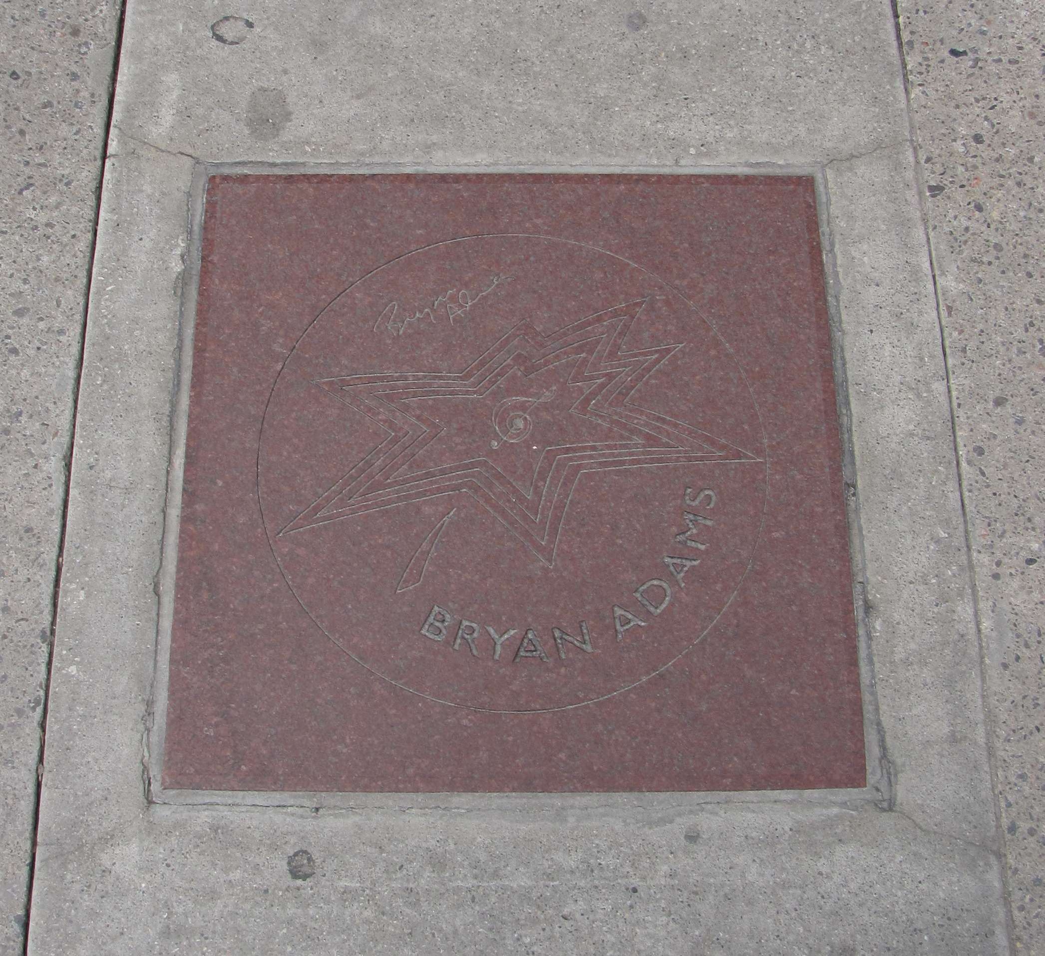 Bryan Adams' star on Canada's Walk of Fame